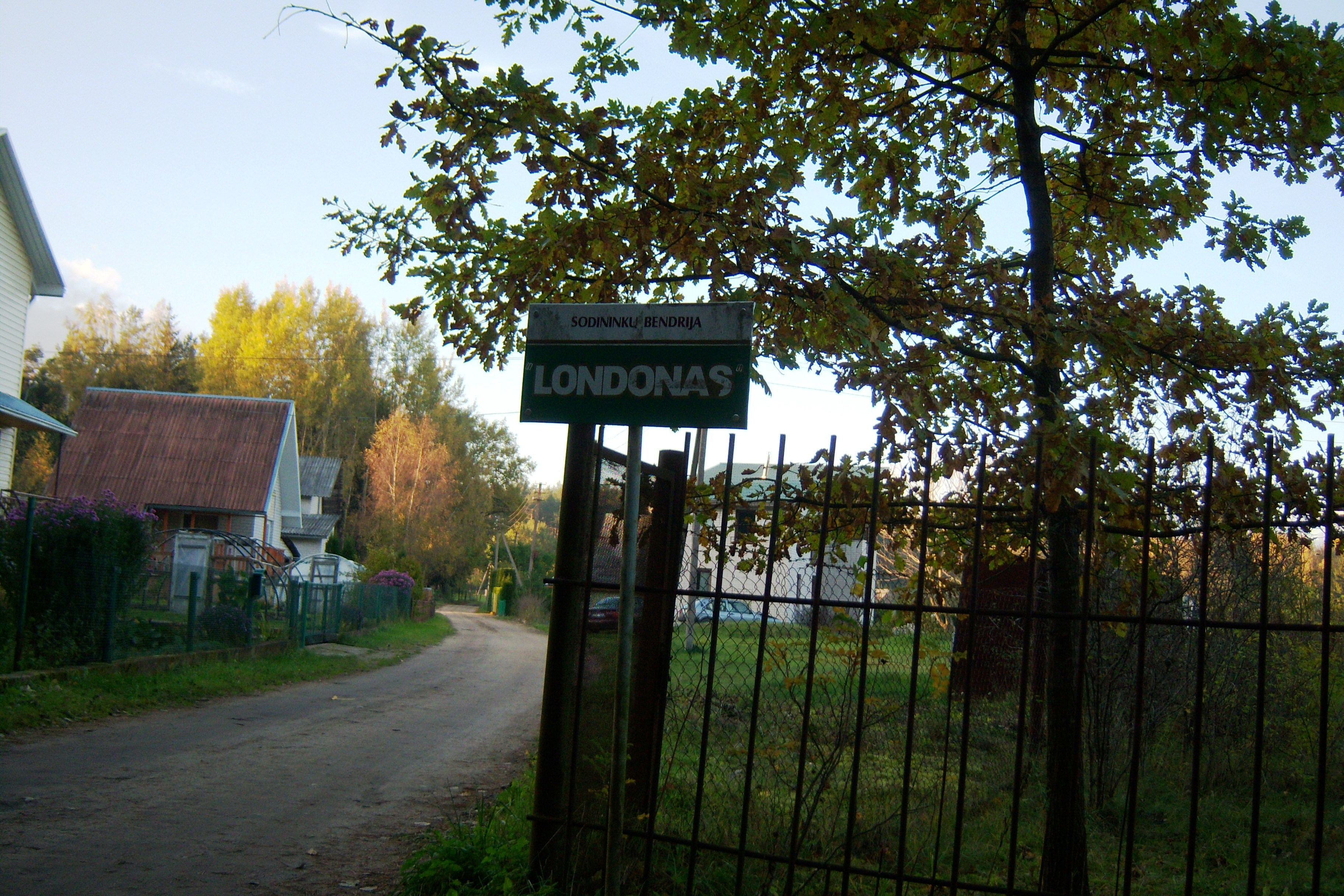 Near center of Londonas, Jonava District, Lithuania